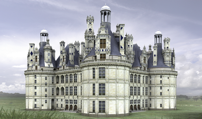 Chateau of Chambord : simulation of the original plan of the keep.